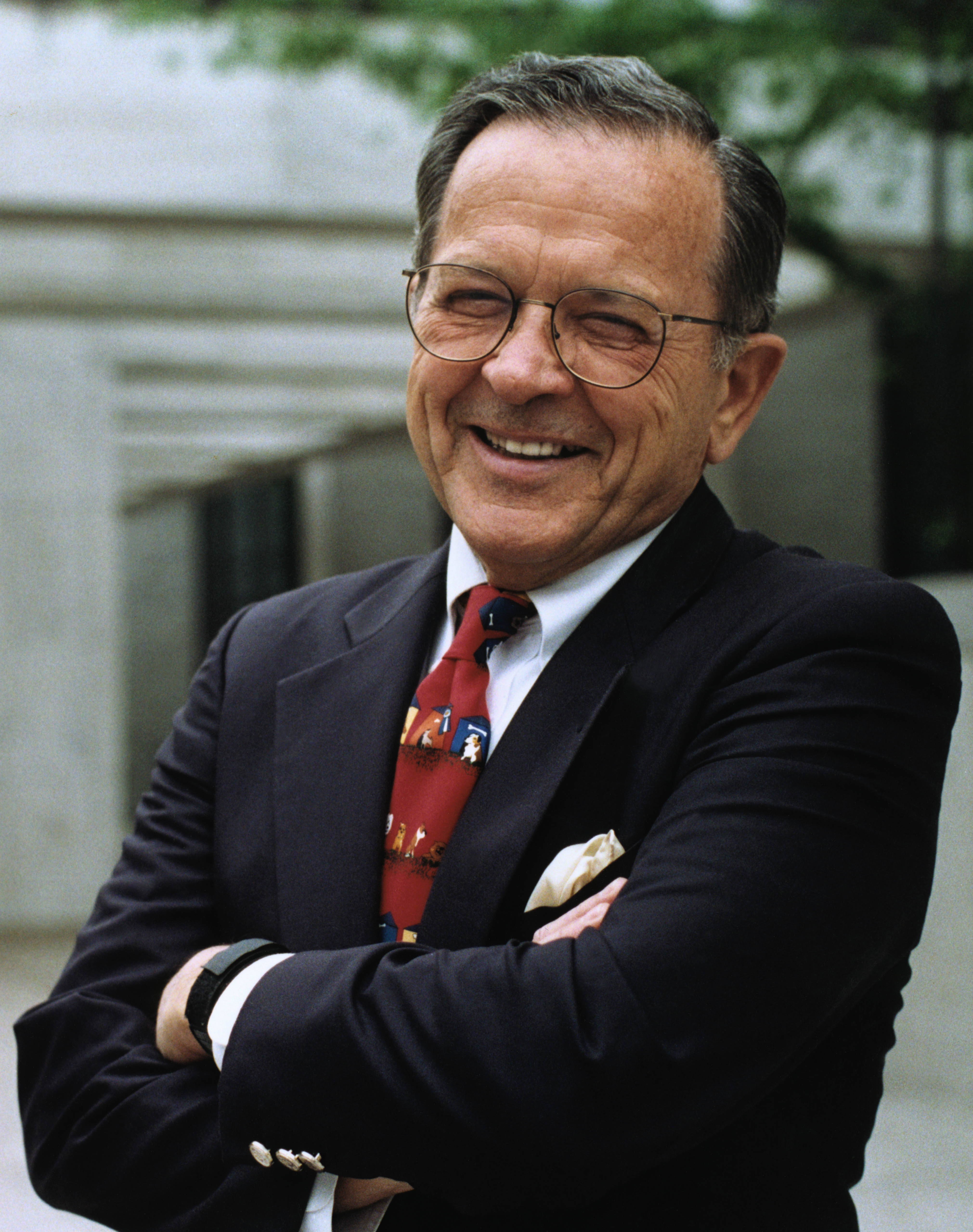 Ted Stevens chaired the Senate Committee on Appropriations from 1997 to 2001 and again from 2003 to 2005. credit: United States Senate Historical Office